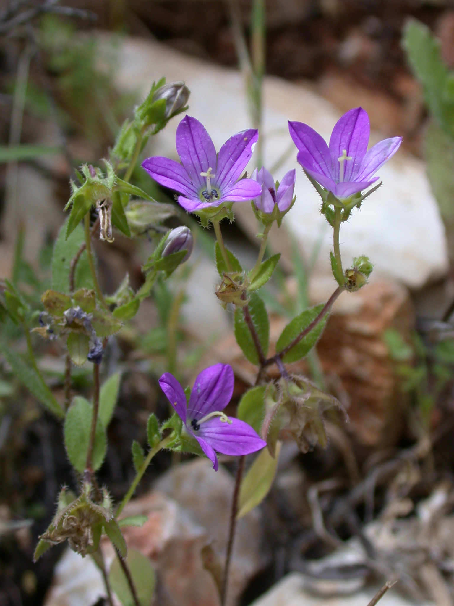 Campanula stellaris Boiss., Upper Galilee, Israel, May 18 2006.